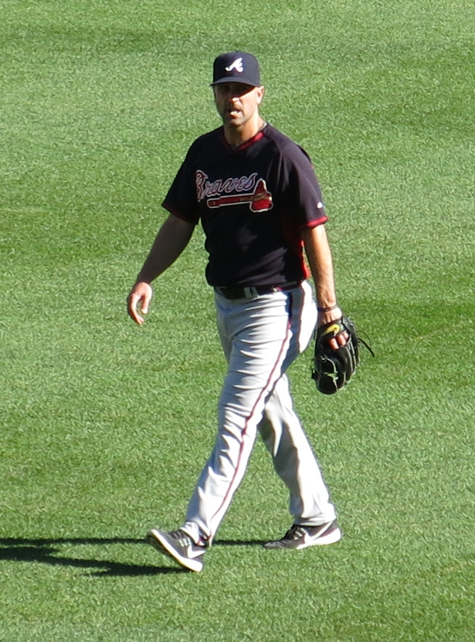 Buddy Carlyle of the Atlanta Braves, June 17, 2016.